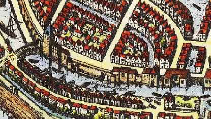 Description: historical sight of the German town of Hamburg by Georg Braun and Franz Hogenberg (between 1572 and 1618) Uploaded by: --Immanuel Giel 14:33, 3 January 2006 (UTC) Other versions: none